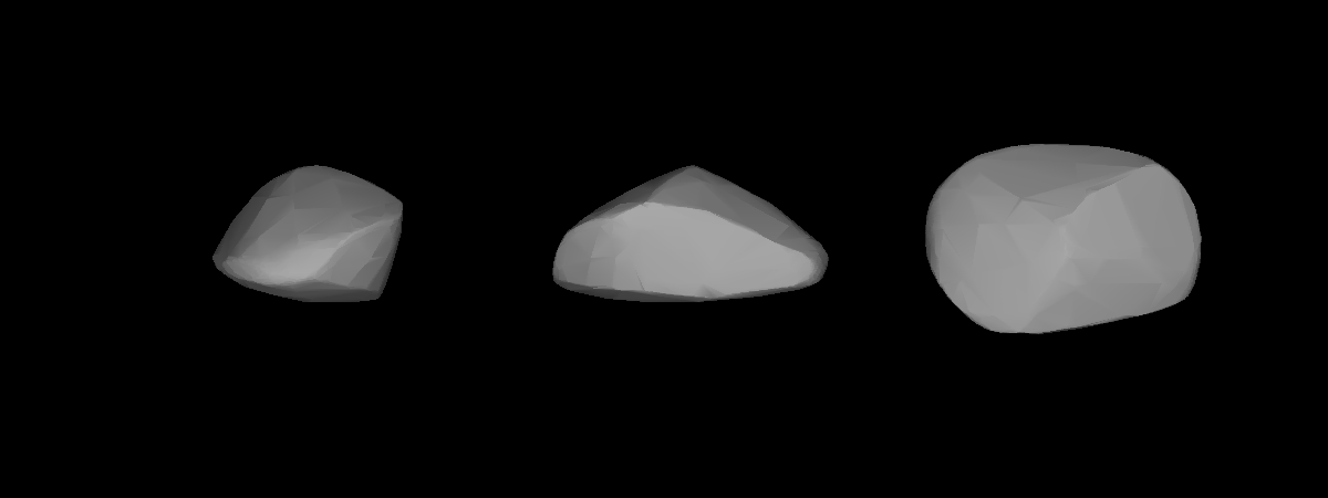 A three-dimensional model of 875 Nymphe that was computed using light curve inversion techniques.